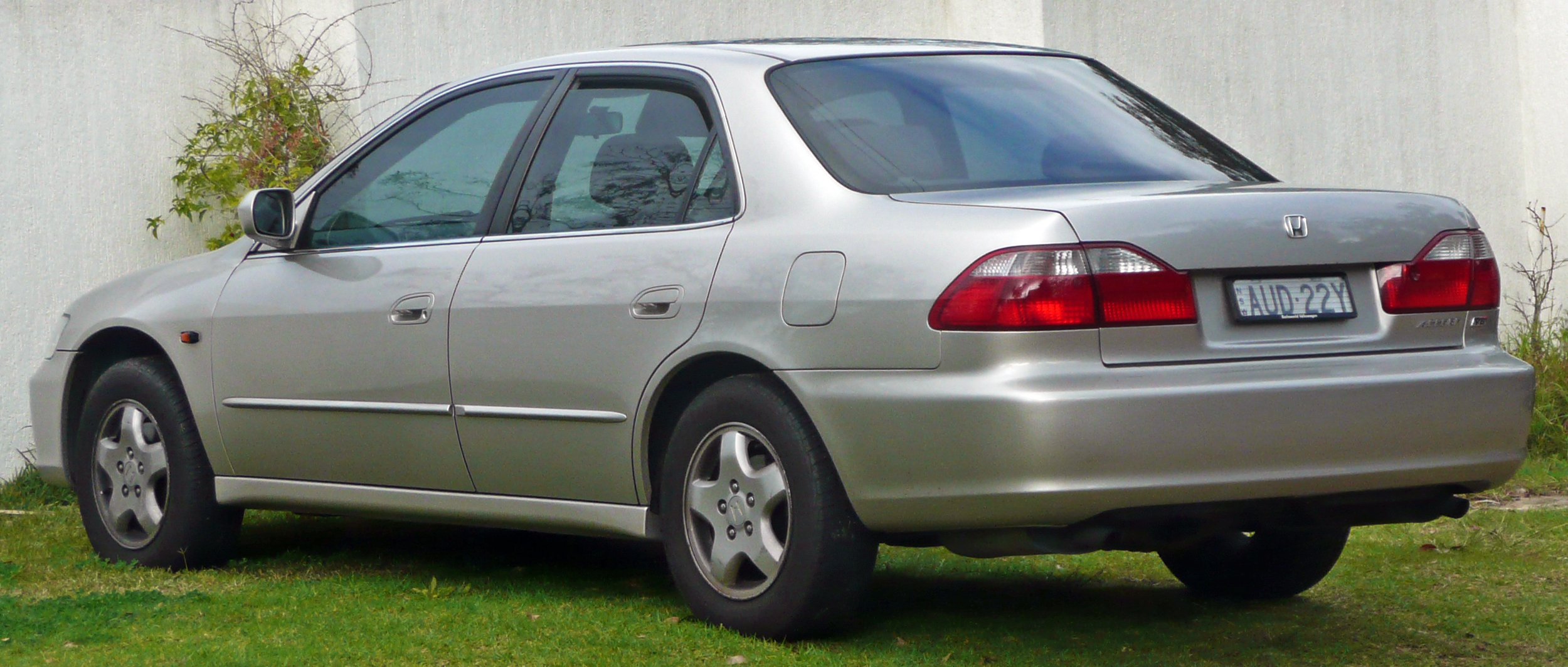 1997–2001 Honda Accord V6 sedan. Photographed in Cronulla, New South Wales, Australia.